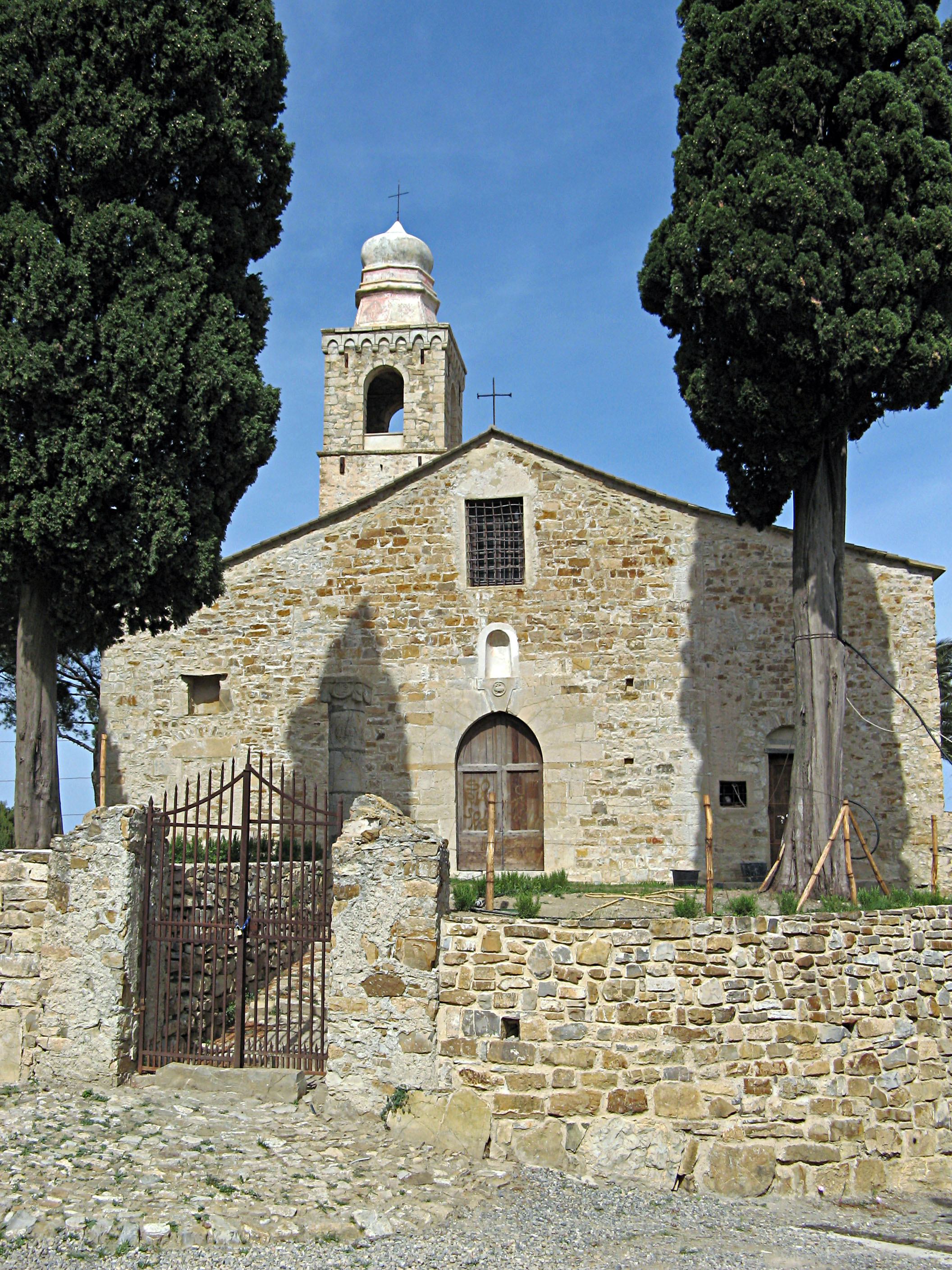 The Romanic church of St. Antonio, out of the Costarainera village, in Liguria (Italy)